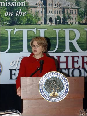 Secretary Spellings speaks at the first meeting of the Commission on Future of Higher Education.